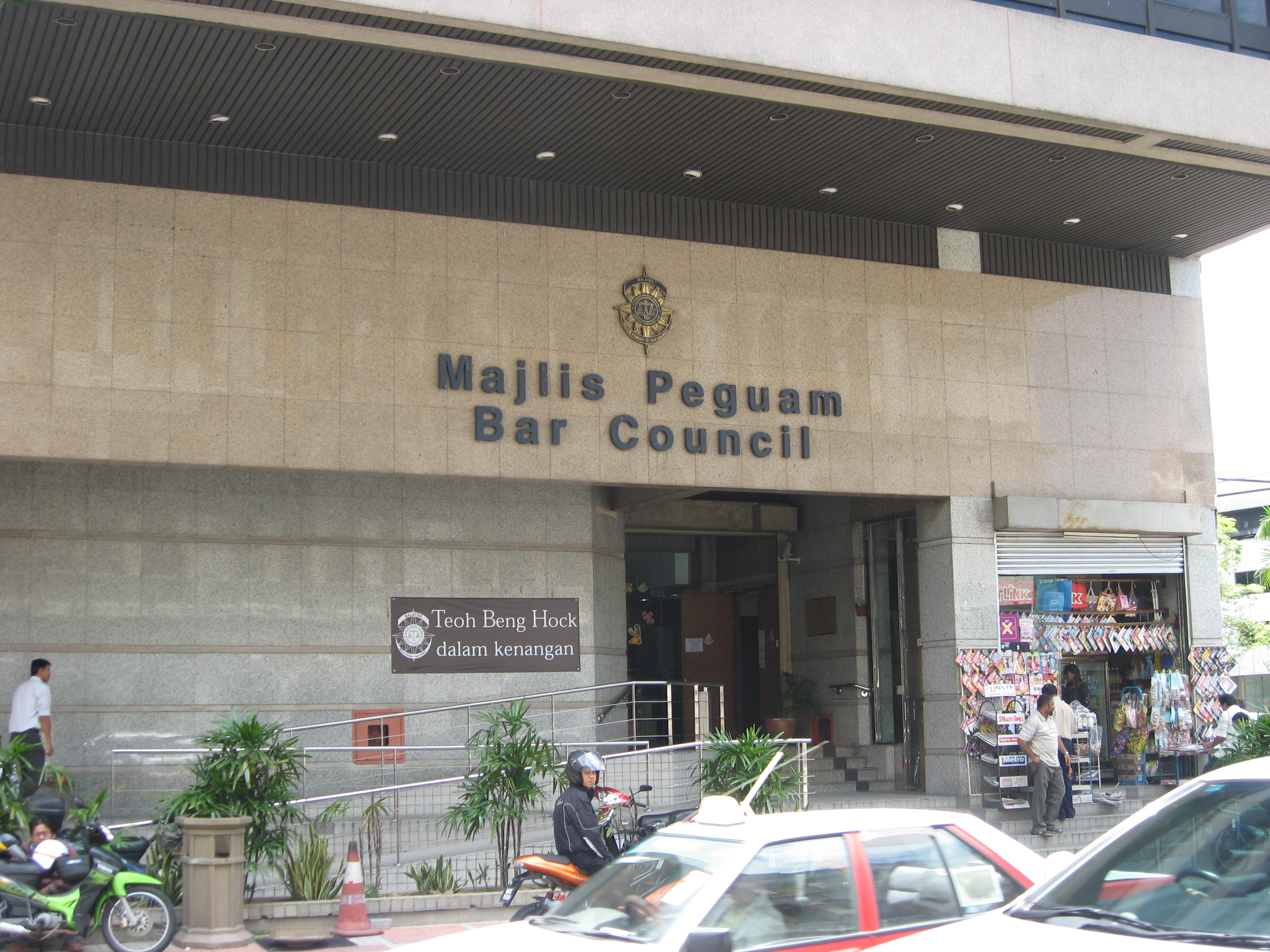 Bar Council of Malaysia (headquarters in Kuala Lumpur) showing a banner saying ‘Teoh Beng Hock dalam kenangan’.